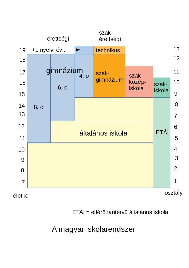 The Hungarian school system